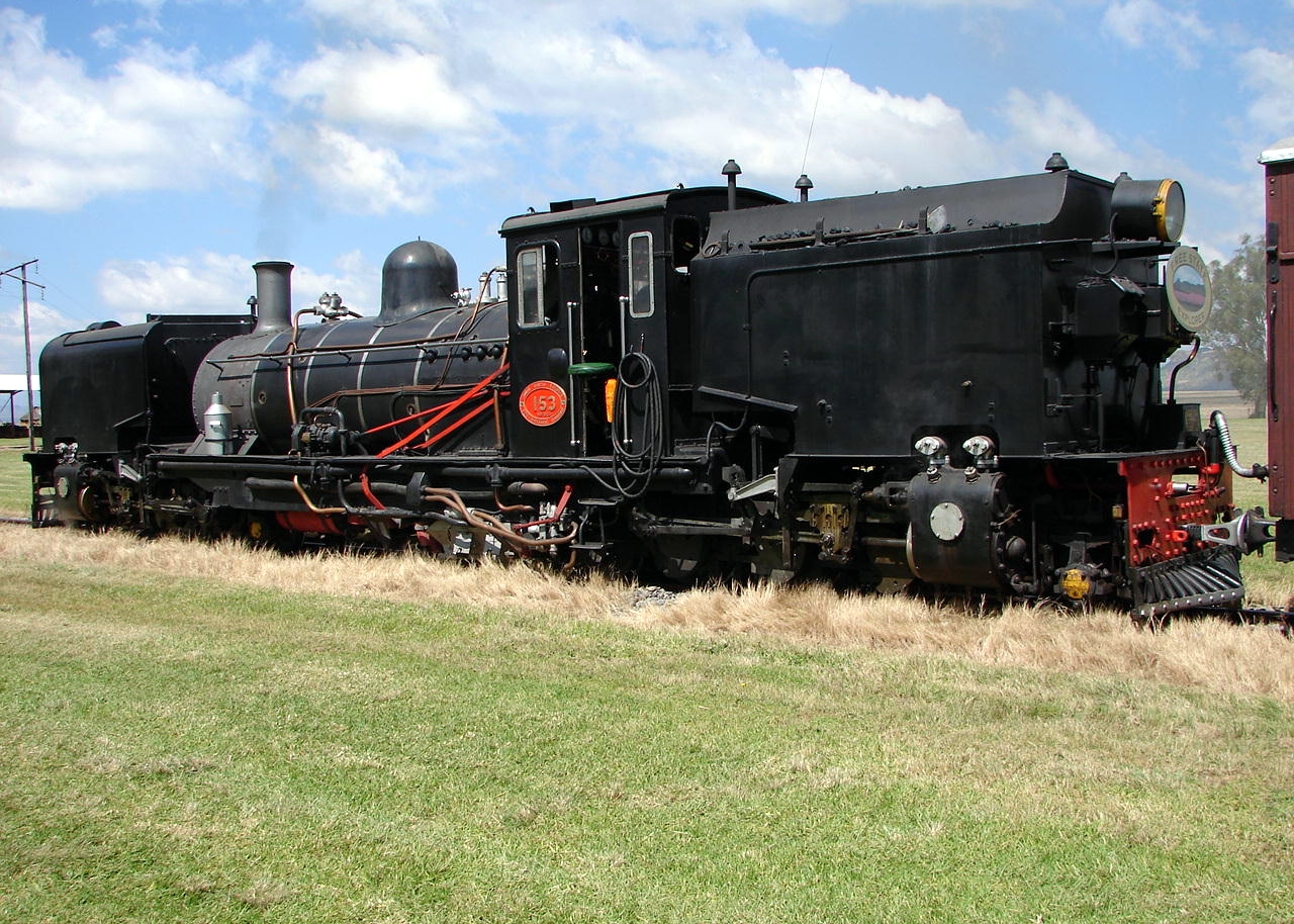 The Sandstone Estates' SAR Class NG G16 153 (2-6-2+2-6-2)Builder's No: Hunslet-Taylor 3898Location: Sandstone Estates, Ficksburg, Free State